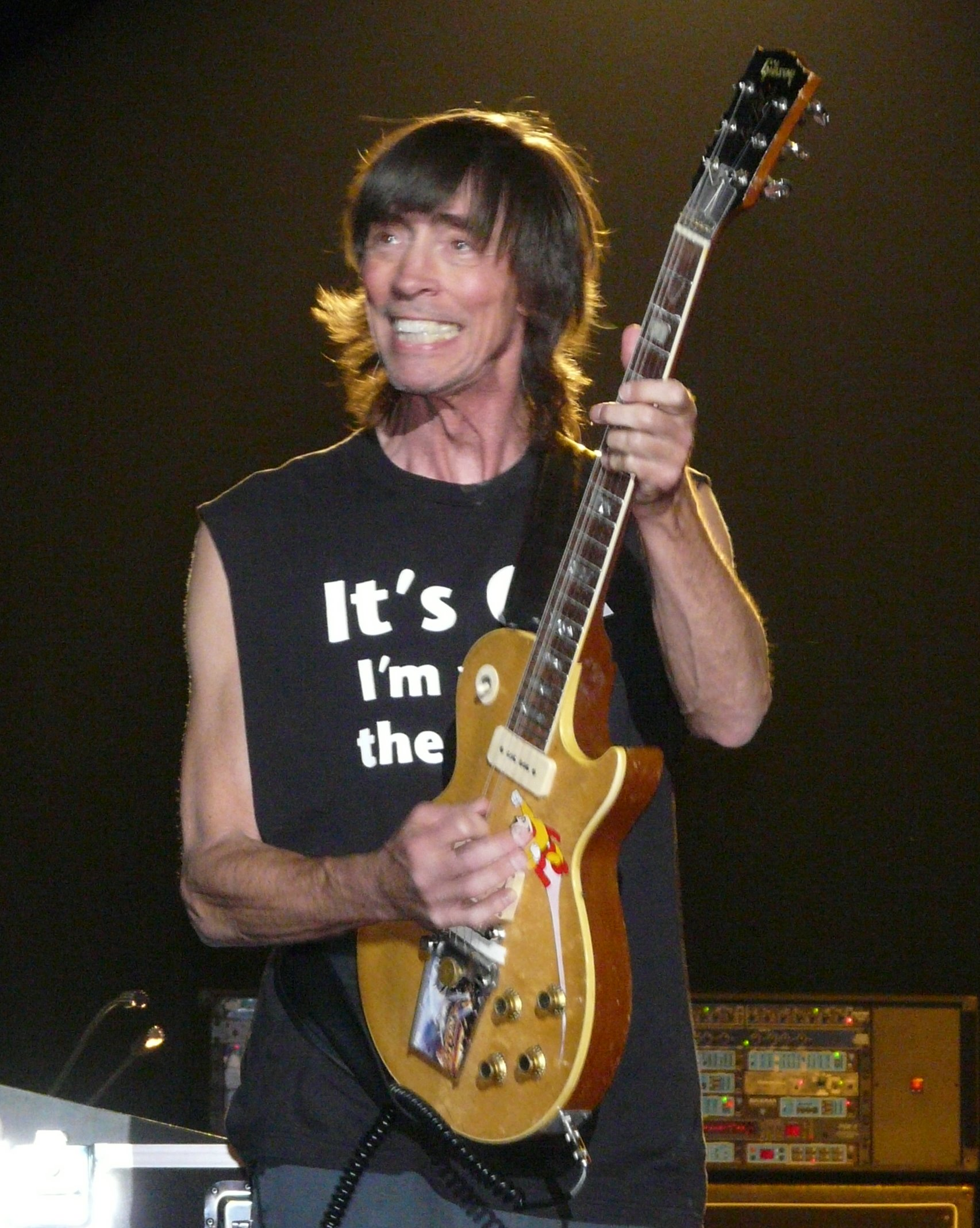 TOM SCHOLZ of BOSTON PHOTO BY MATT BECKER Taken on June 13, 2008 at the Grand Casino in Hinckley, MN